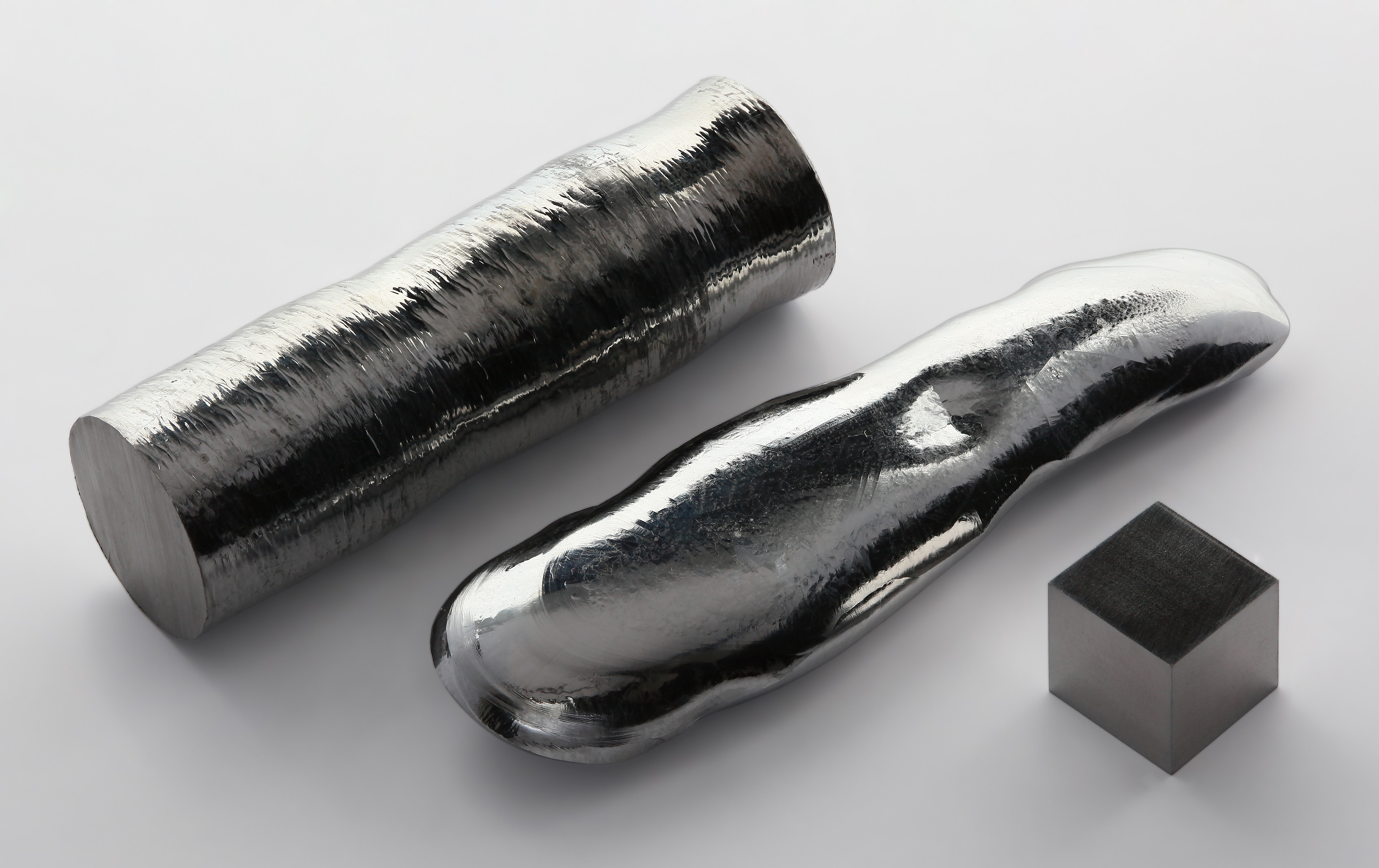 A high purity (99.999 %) rhenium single crystal made by the floating zone process, an ebeam remelted (99.995 %) rhenium bar and as well as a high purity (99.99 % = 4N) 1 cm3 rhenium cube for comparison.